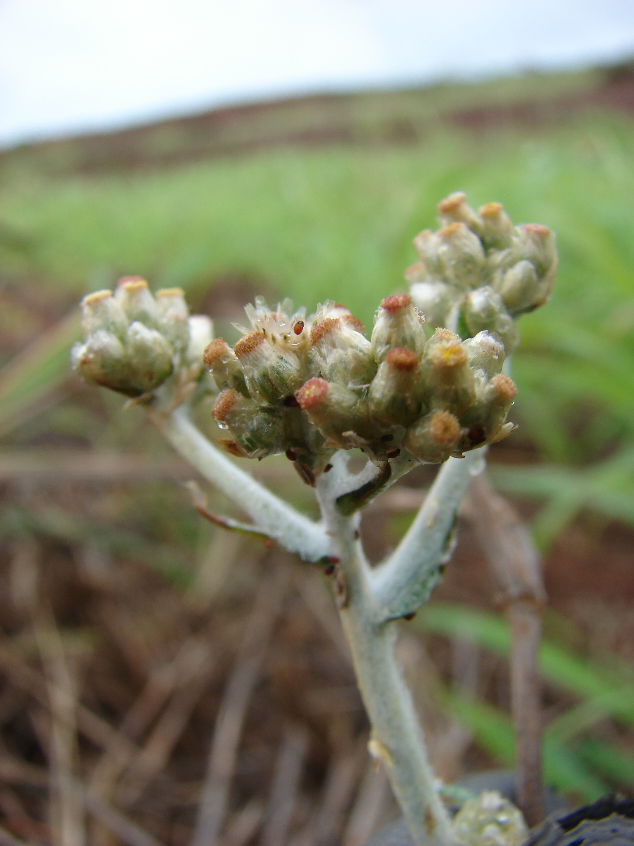 Gamochaeta purpurea (flowers). Location: Kahoolawe, Lua Kealialalo